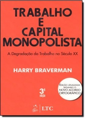 Braverman in Spanish